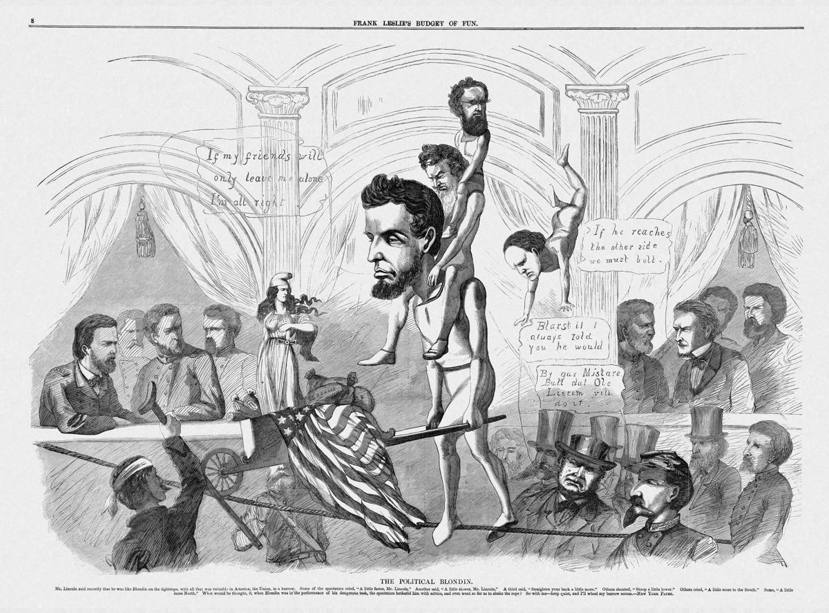 Abraham Lincoln depicted as Charles Blondin. Caption: Mr. Lincoln said recently that he was like Blondin on the tightrope, with all that was valuable in America, the Union, in a barrow. Some of the spectators cried, "A little faster, Mr. Lincoln." Another said, "A little slower, Mr. Lincoln." A third said, "Straighten your back a little more." Others shouted, "Stop a little lower." Others cried, " A little more to the South." Some, "A little more North." What would be thought, if, when Blondin was in the performance of his dangerous task, the spectators bothered him with advice, and even went so far as to shake the rope? So with me - keep quiet, and I'll wheel my barrow across. - New York Paper.